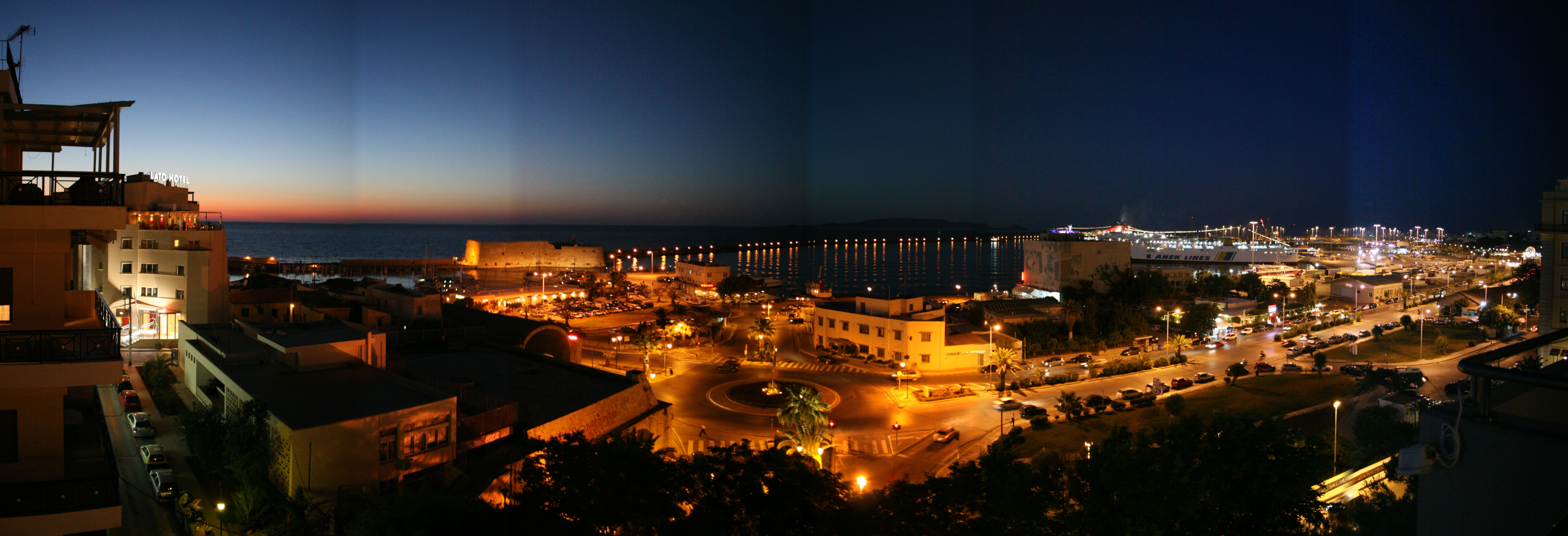 From the balcony of the Marin Hotel there's a view of the Harbour.